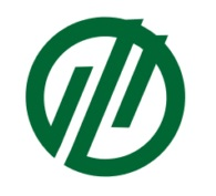 Nosegawa Nara chapter